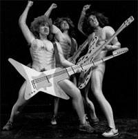 The Clichettes Performing Go To Hell